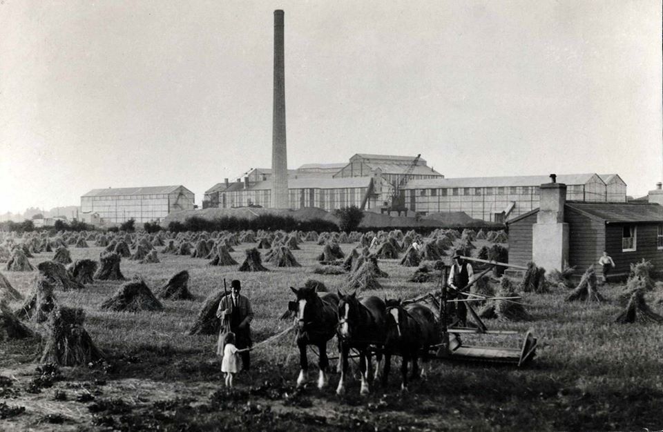 Carlow Beet Factory in 1935, photograph taken by a priest working with the Capuchin Order as part of the Father Mathew Record